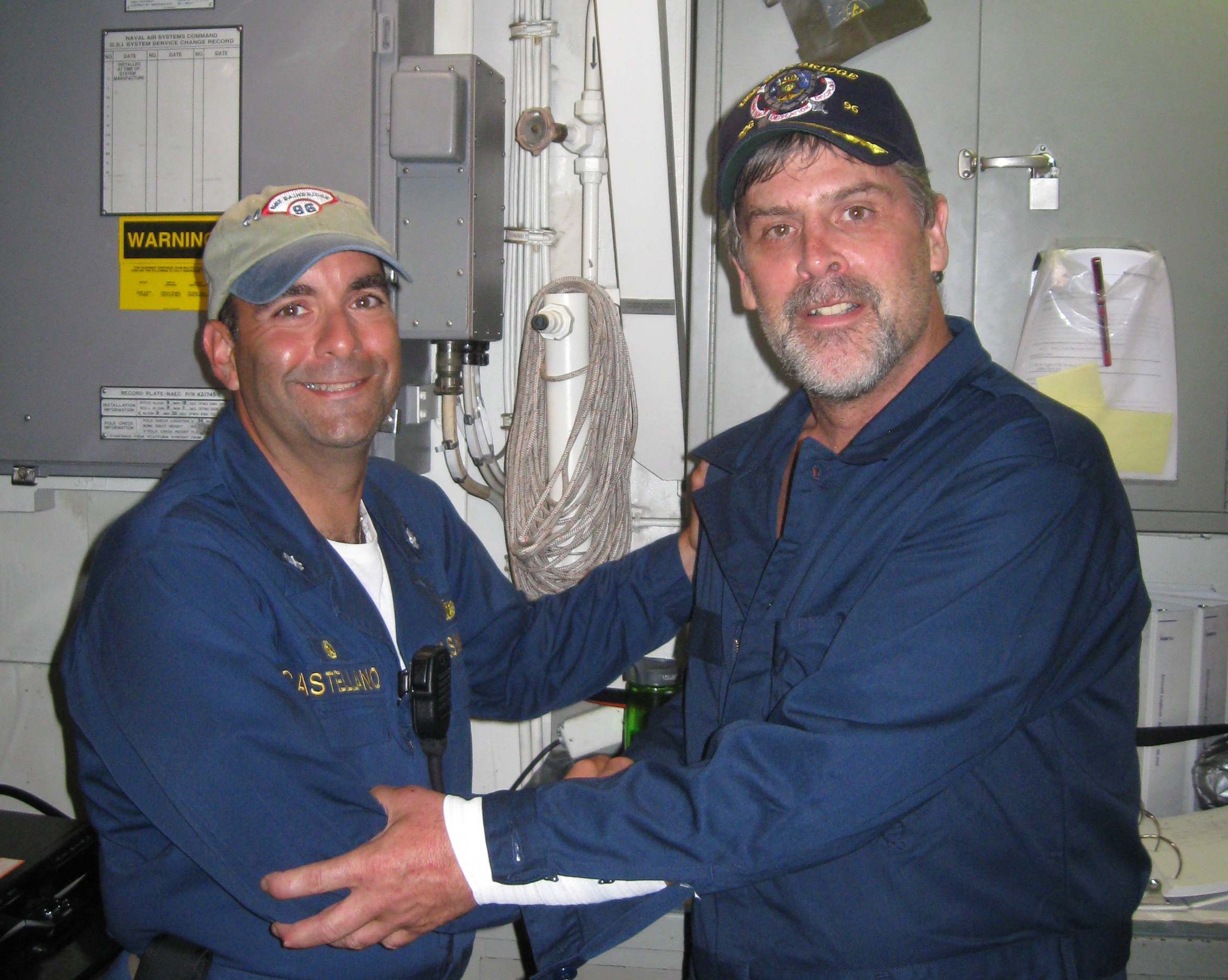 090412-N-XXXXN-001 SOMALI BASIN (April 12, 2009) Maersk-Alabama Capt. Richard Phillips, right, stands alongside Cmdr. Frank Castellano, commanding officer of USS Bainbridge (DDG 96) after being rescued by U.S Naval Forces off the coast of Somalia. Philips was held hostage for four days by pirates. (Official U.S. Navy photo/RELEASED)